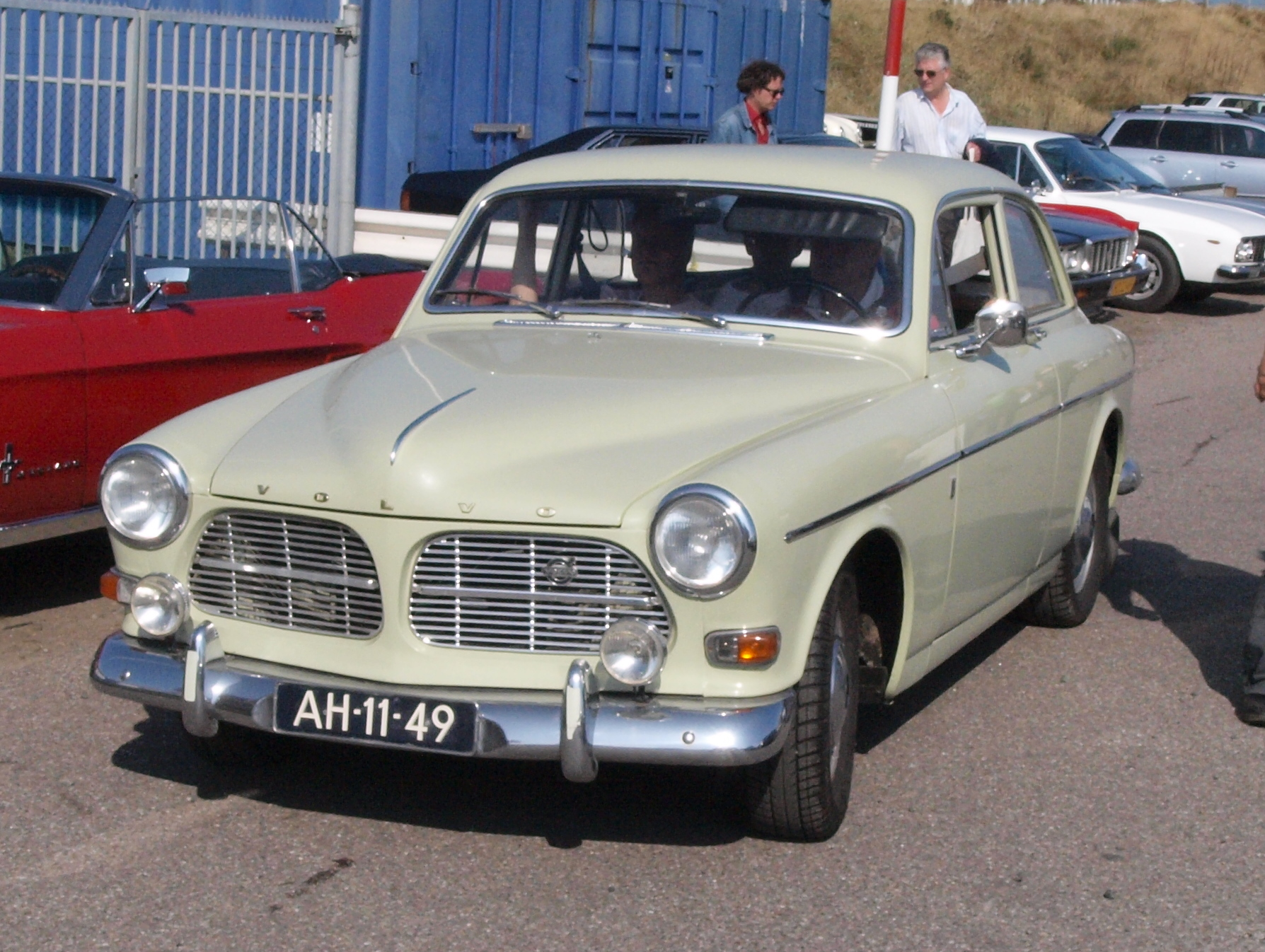 Photographed at the Nationaal Oldtimer Festival Zandvoort 2009, The Netherlands. OLYMPUS DIGITAL CAMERA